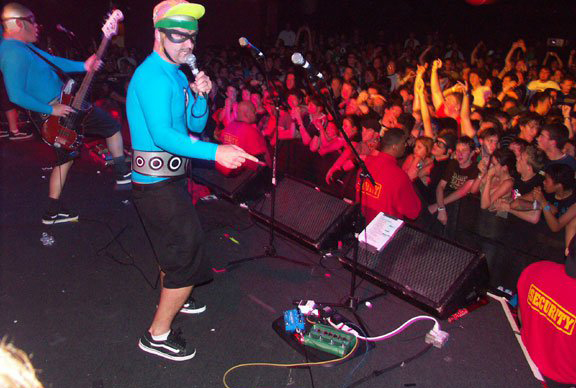 The Aquabats at The Glass house